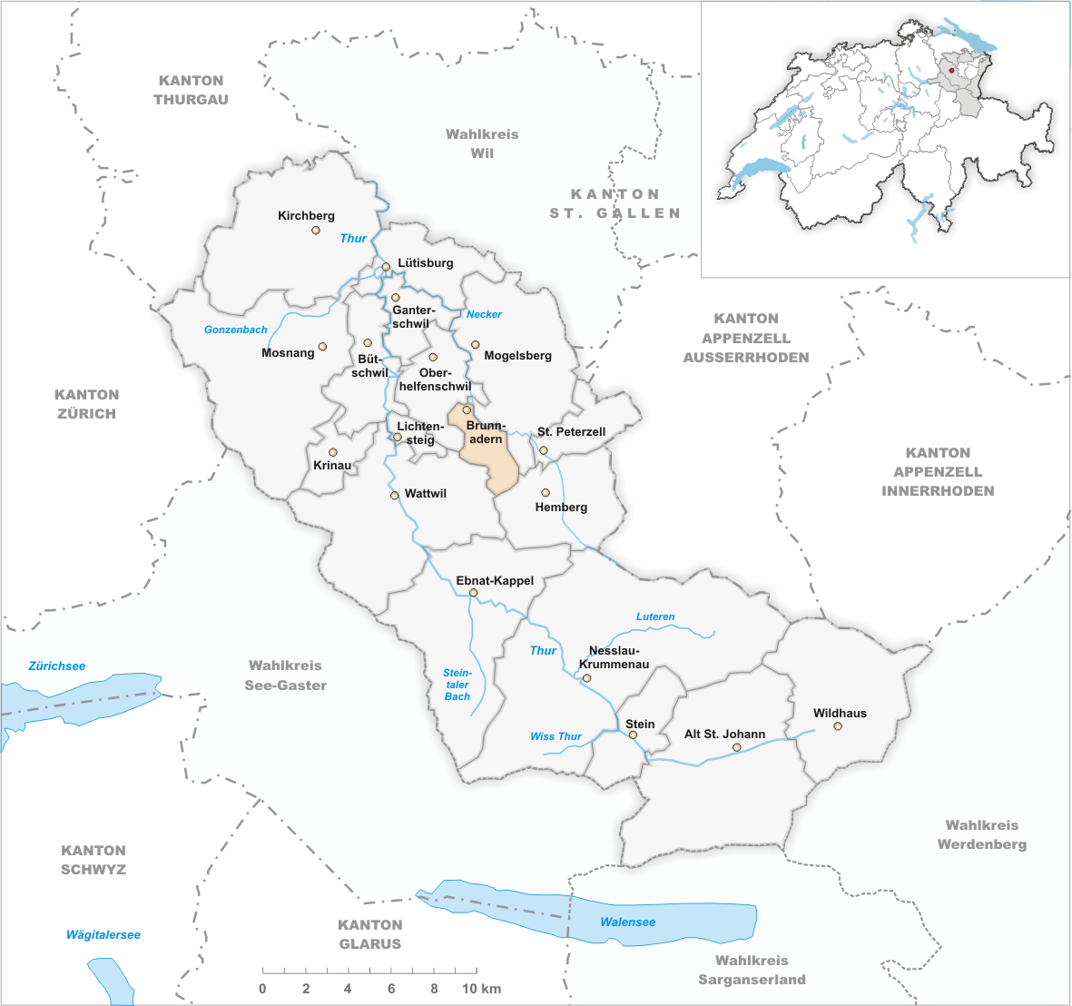 Municipality Brunnadern